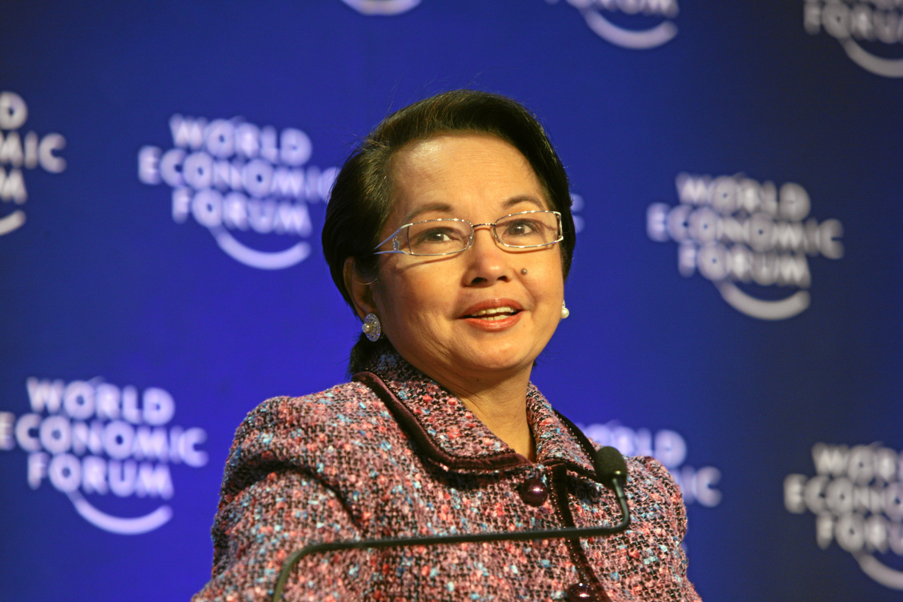 Gloria Macapagal Arroyo, President of the Philippines